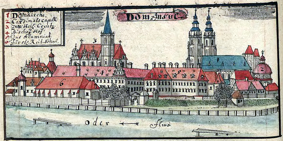 Cathedral's Isle in Wroclaw with the church of the Holy Cross and the twin towers of St. John's cathedral